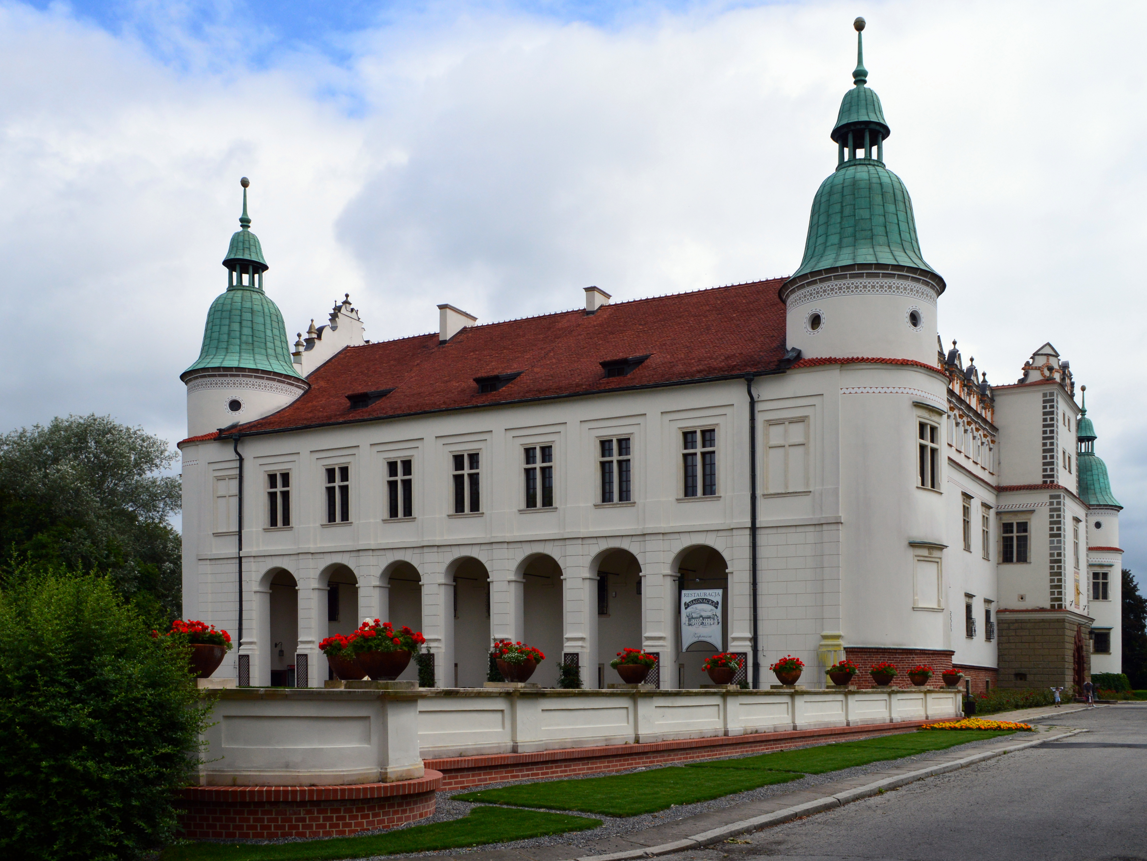 Baranów Sandomierski is a small town in southern Poland, in the Subcarpathian Province, Tarnobrzeg County on the Vistula River. The settlement or the gord of Baranów was first mentioned in 1135. It was conveniently located near the Vistula river ford, and in 1354 it was granted town charter by King Casimir III the Great. Baranów belonged to the Baranowski family, and in the late fifteenth century it became property of the Kurozwecki family. In 1518 Barbara Kurozwecka married Stanisław Górka, so Baranów remained in the hands of the Górka family until 1560, when it was sold to Rafał Leszczyński. During the Protestant Reformation, Baranów was an important center of Calvinism. The town prospered due to grain trade, as well as its artisans. Its decline began during the catastrophic Swedish invasion of Poland (1655 - 1660), when Baranów was ransacked and burned. In 1677 the town was sold to Dymitr Wiśniowiecki, later on it belonged to the Lubomirski family, and the Potocki family. After the partitions of Poland Baranów found itself in the Austrian province of Galicia, where it remained from 1772 until 1918. The town is well known for its picturesque Renaissance castle / palace built in 1591-1606. It is known as "Little Wawel". This castle is a class zero monument. It is believed to be the work of the famous architect, Santi Gucci, the court artist of King Sigismund II Augustus, who brought many foreign architects from around Europe to Poland in the sixteenth century. The castle was built around 1591–1606 for Rafał and Andrzej Leszczyński. Its style comes from the Italian renaissance. By the end of the seventeenth century, the next owners were the Lubomirski family, who decided to change the residence. They hired a Dutch architect, who added columns on the inside of the castle courtyard, on which there was a gallery of art by Giovanni Battista (unfortunately the art was destroyed in two fires in 1848 and 1898).